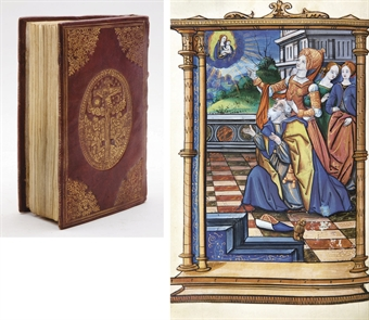 Livre d'heures du seizième siècle